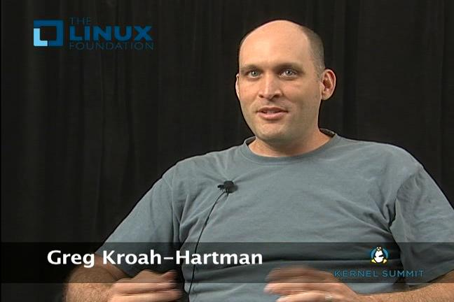 Greg Kroah-Hartman at Linux Kernel Developers Summit 2008 at Portland, Oregon